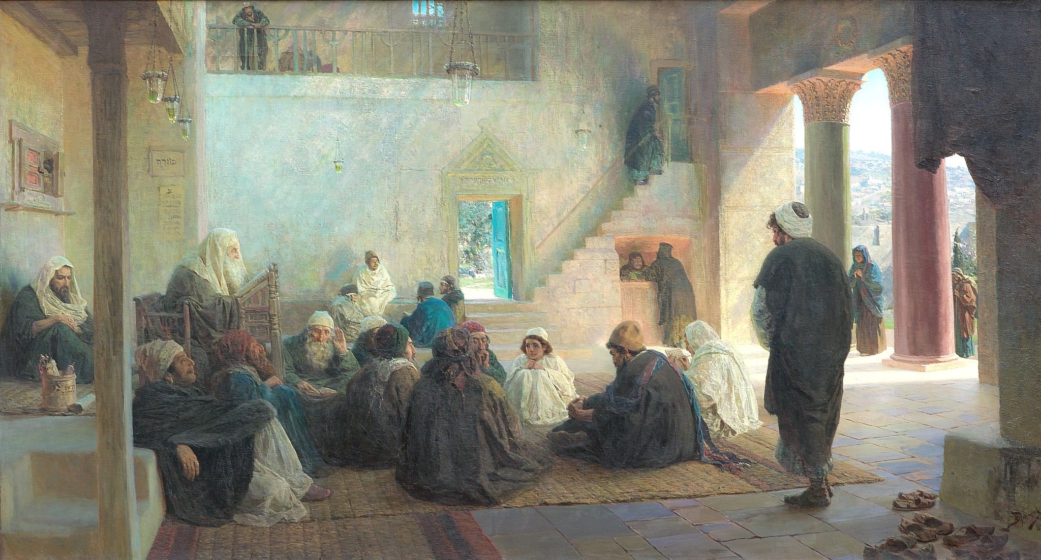 Christ among teachers